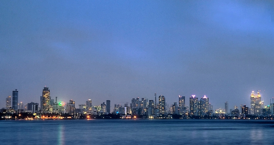 30 sec exposure at 7:30 PM from Bandra Reclamation.